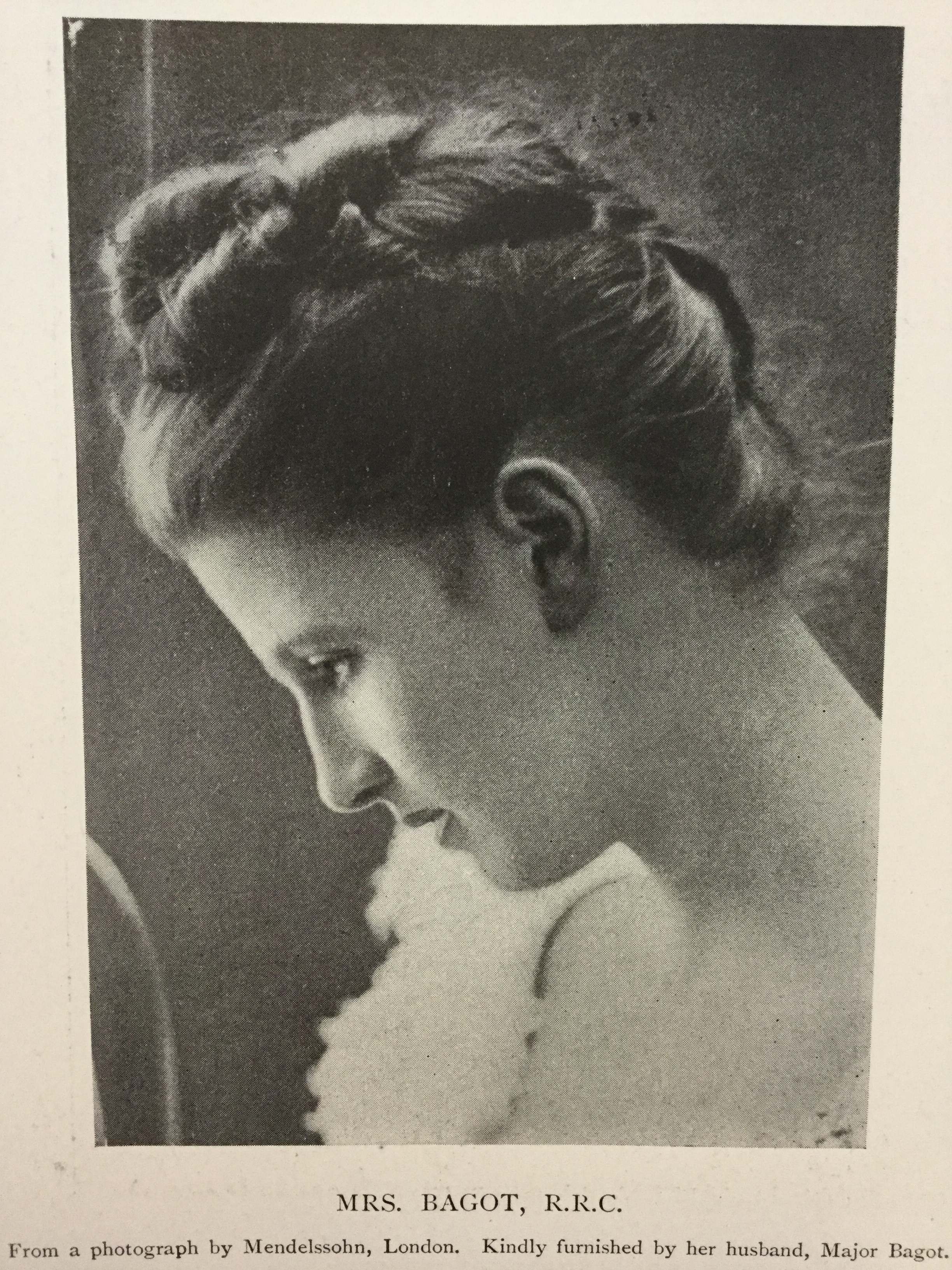 Portrait of Theodosia Bagot. From a photograph by Mendelssohn, London. Included in Henry James Morgan's "Types of Canadian women and of women who are or have been connected with Canada" (1903).